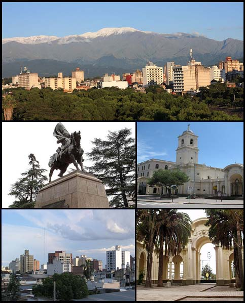 Image montage of San Salvador de Jujuy, Argentina.